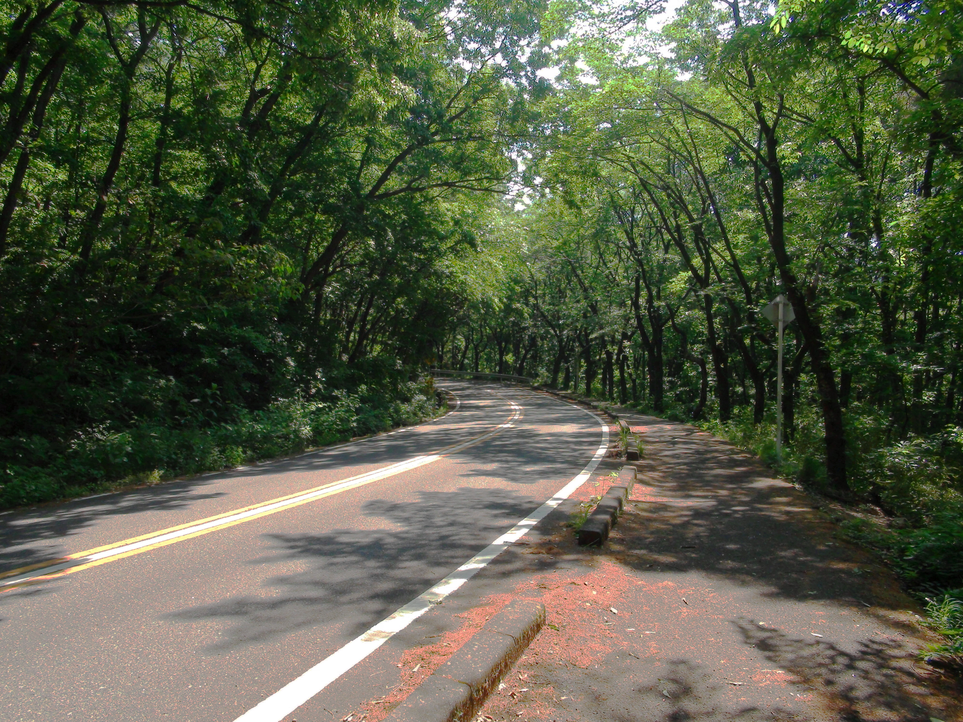 Yamanashi-Prefectural road route №119